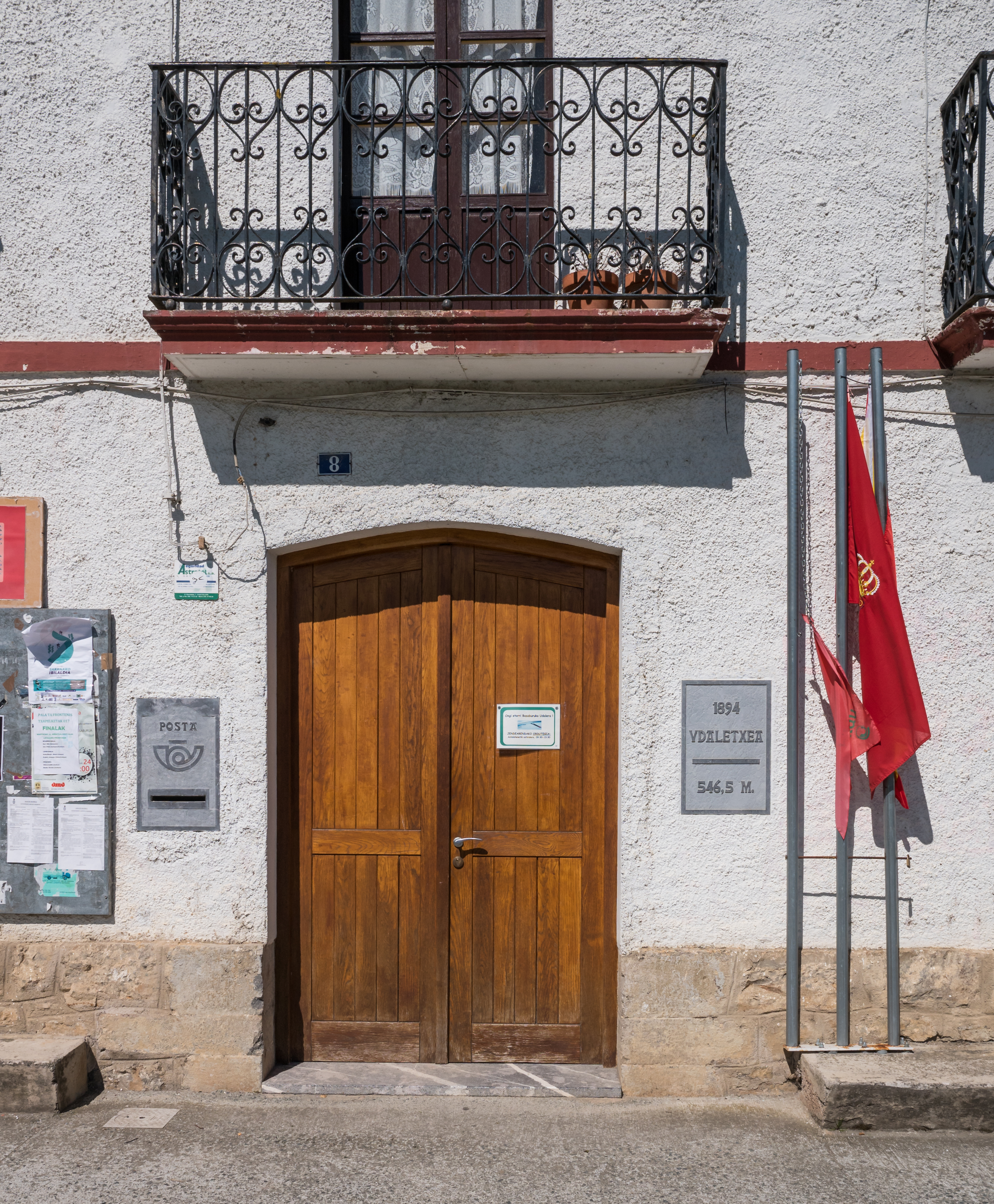 Town hall of the Basaburúa Mayor municipality, Jauntsarats. Navarre, Spain.